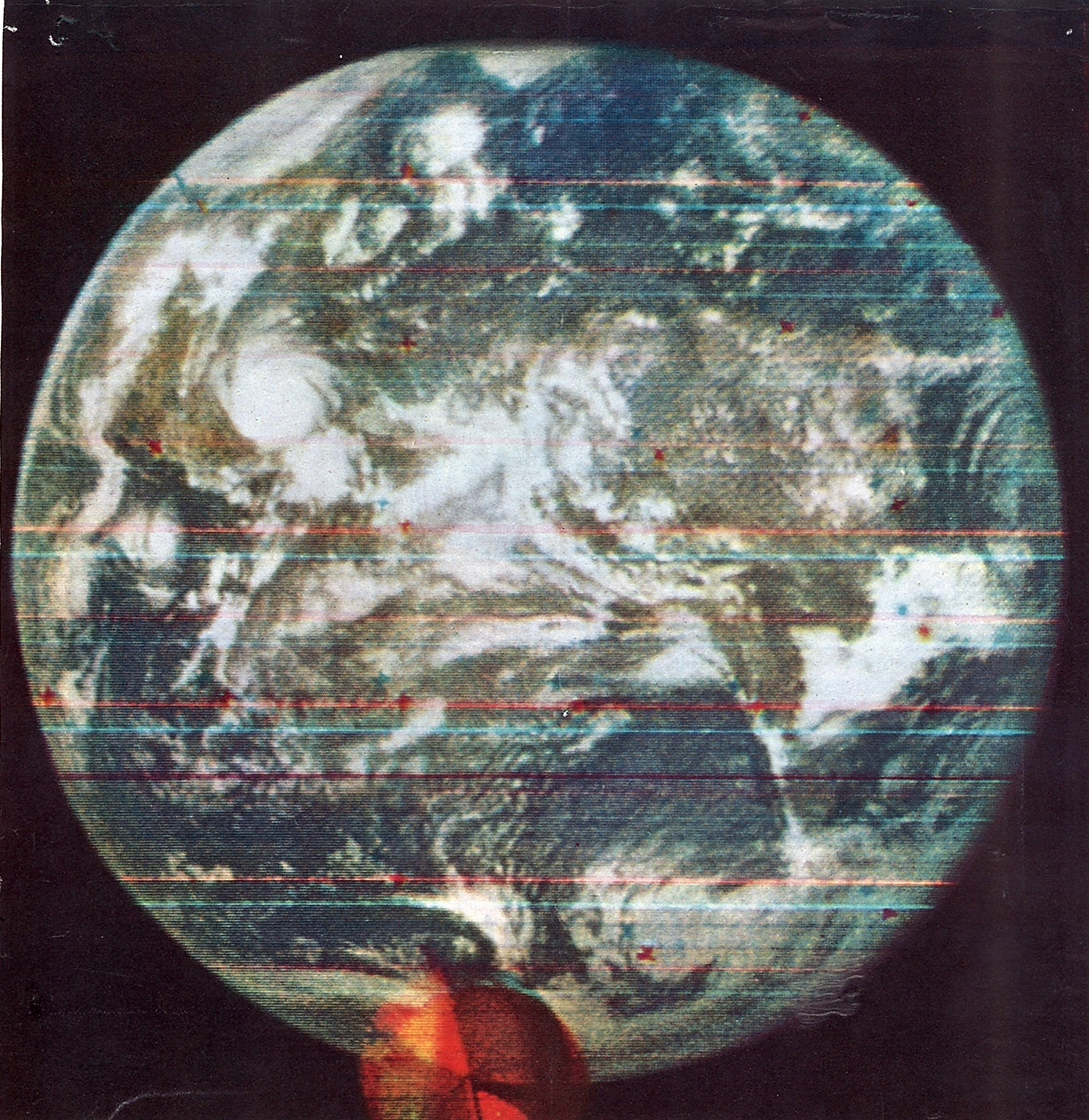 This is the first full face color portrait of the earth taken by the DODGE satellite in 1967. It was taken 18'100 miles into space. The hurricane above the gulf of Mexico is Hurricane Beulah. The image was taken with a black an white TV camera which took three photos with a red, green and a blue filter to create the color image. The small disc in front of the picture is a colour match card.